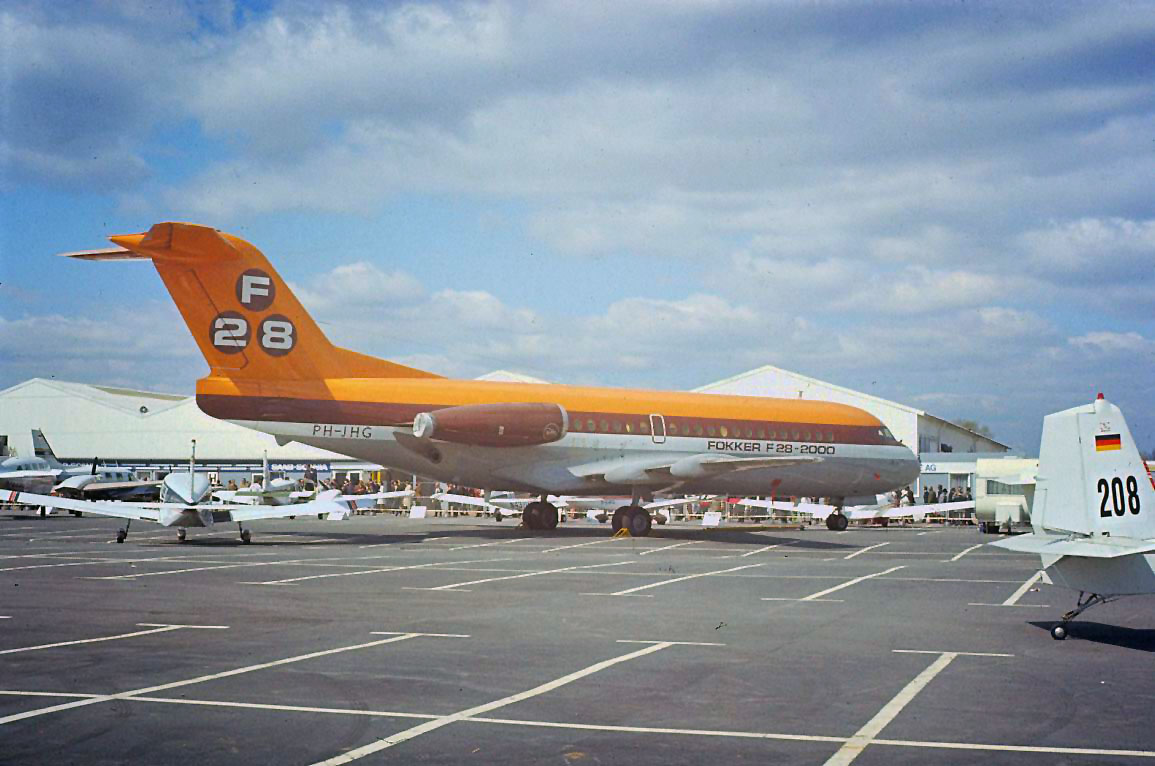 Fokker F28 at the ILA 1972 Langenhagen